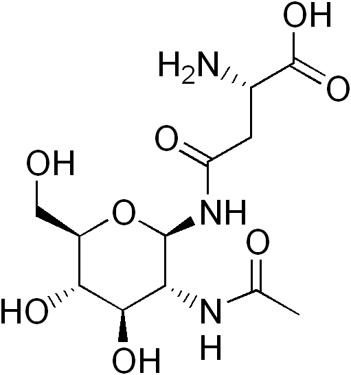 chemical structure of aspartylglucosamine